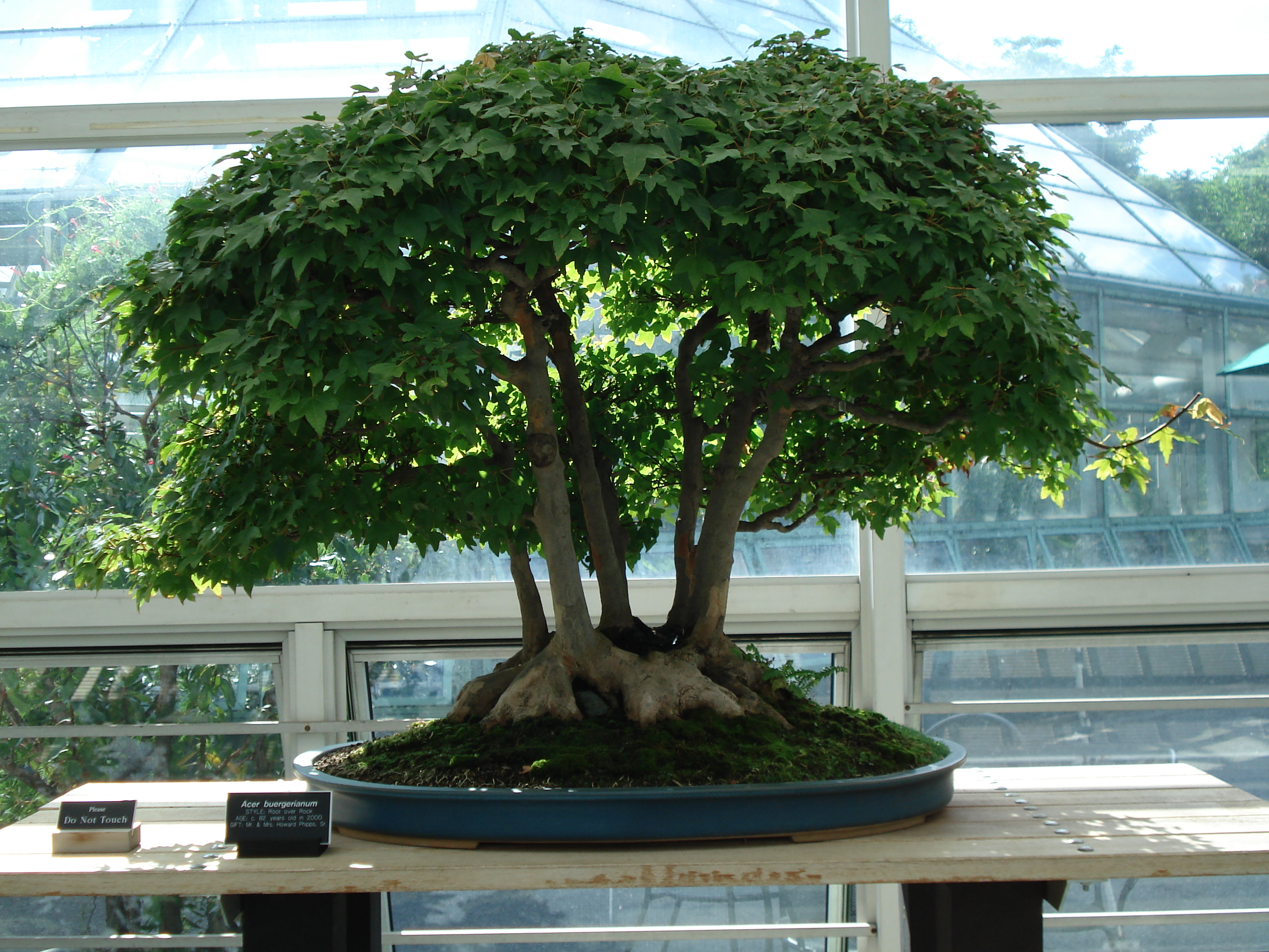 89 year old Acer buergerianum bonsai of the "Root Over Rock" style, from from the Brooklyn Botanic Garden, in New York City. Copyright 2007 Jeffrey O. Gustafson, released to Commons under the GFDL and CC-BY-SA-3.0.